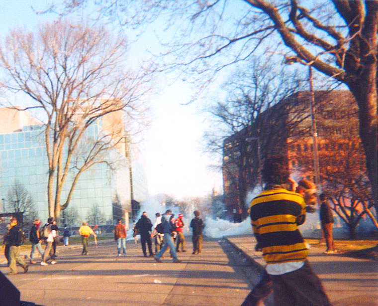 Tear gas launched at protesters during Summit of the Americas in Quebec City, 21 April 2001. Photo taken on Claire-Fontaine St., corner of Saint-Amable Street (later renamed Rue Jacques-Parizeau).